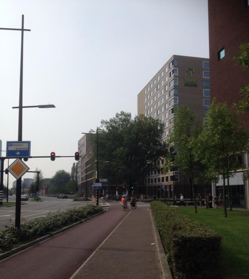 Studentencomplex Tilburg Talent Square. Tilburg, The Netherlands.